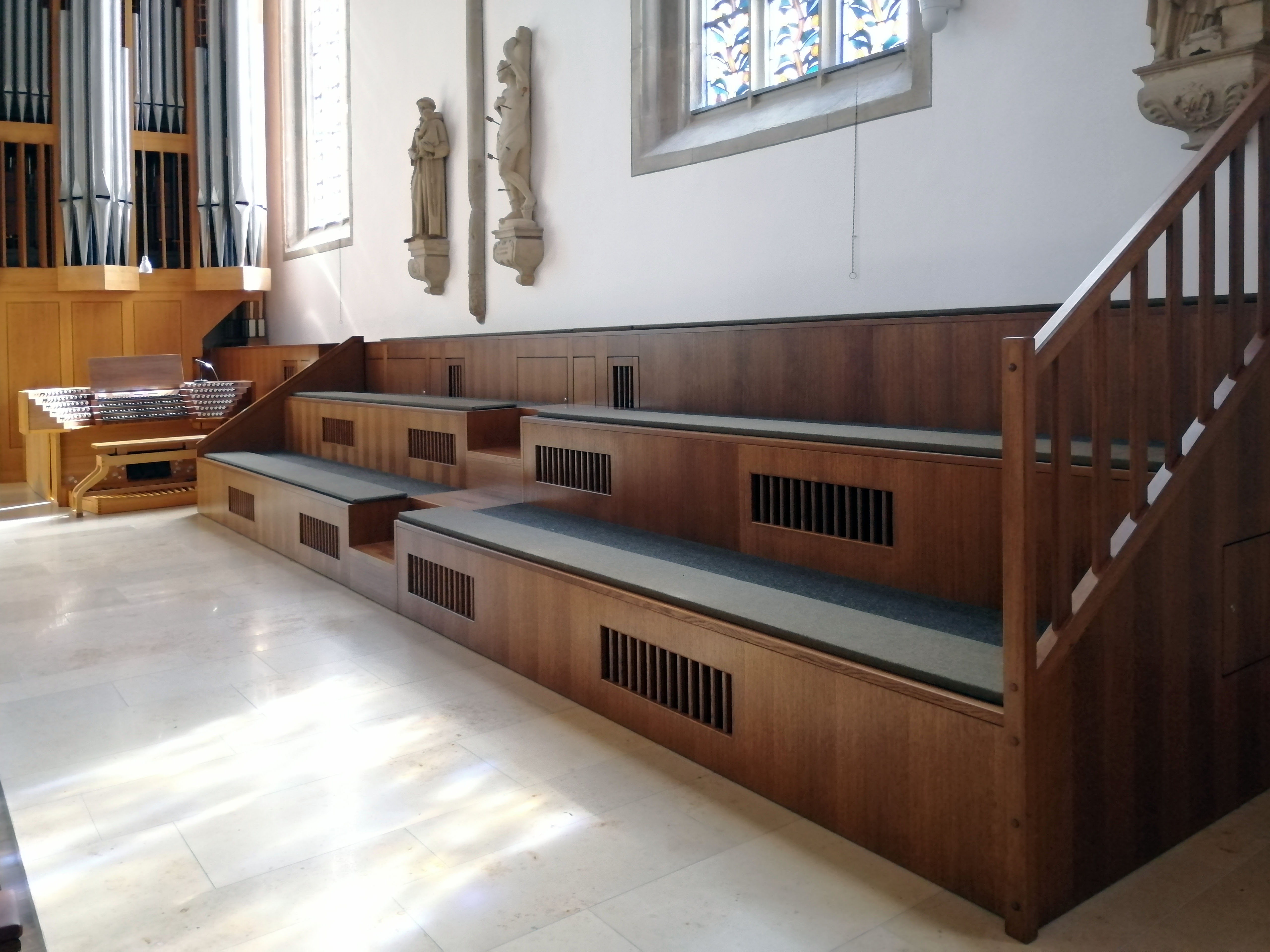 Dionysius - Chorpodest